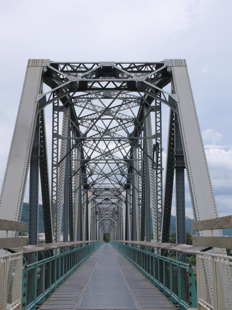 Houli Bikeway Bridge